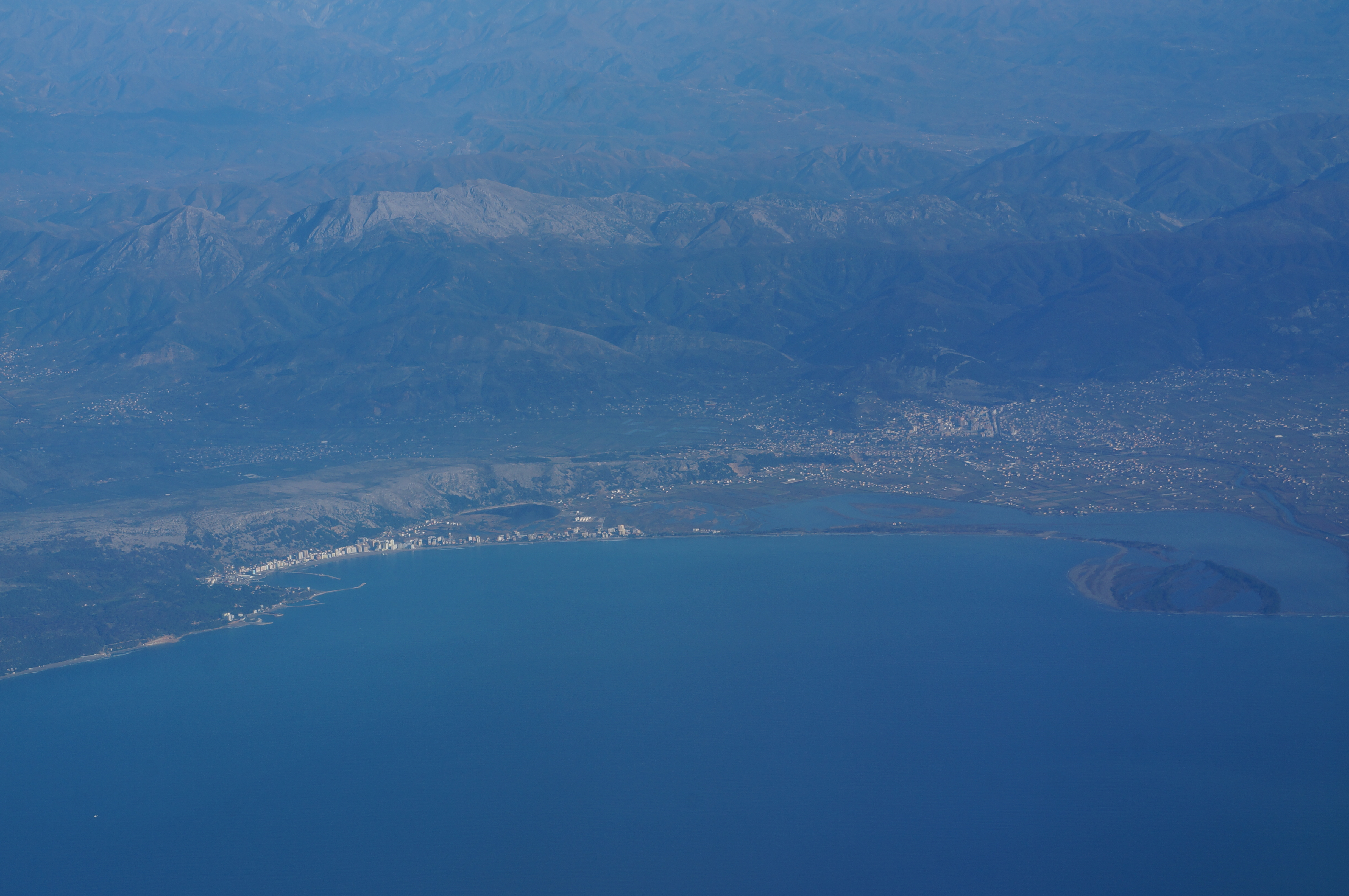 Drin Gulf with Shëngjin to the left, Lezha in center, mountains (Mali i Velës) behind